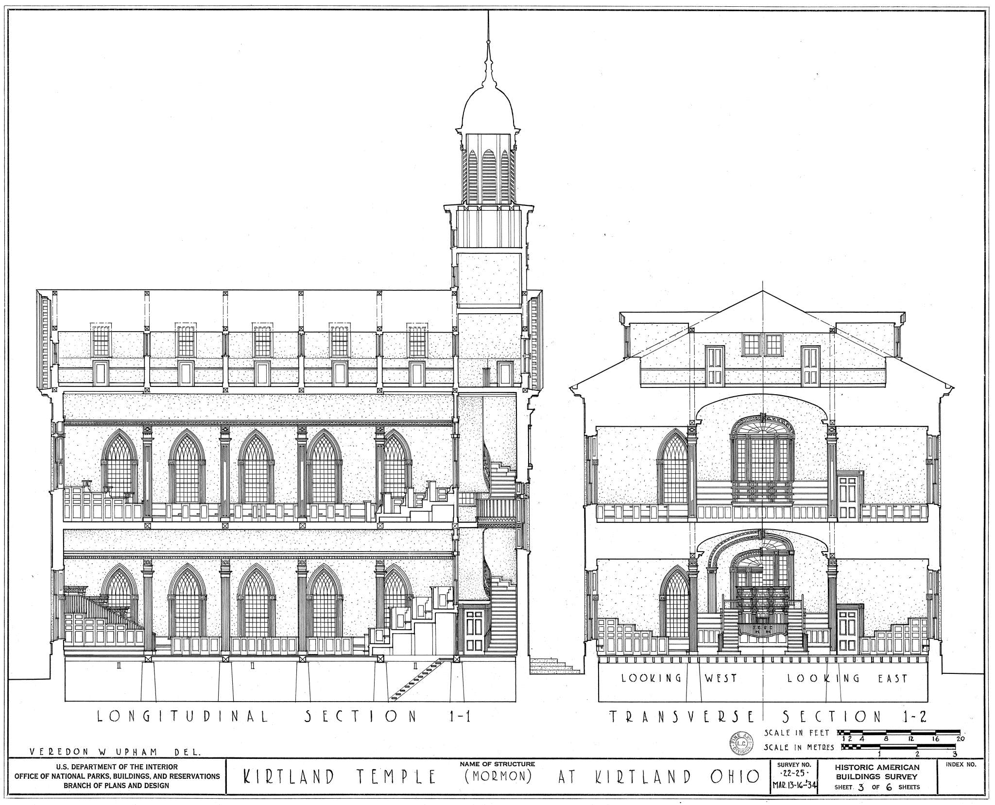 Architectural sketch of the Kirtland Temple, Kirtland, Ohio, USA. A National Historic Landmark. The Temple was build from 1833-1836 by the Church of Jesus Christ Latter Day Saints under their prophet Joseph Smith, jr. It is today owned and used by the Community of Christ